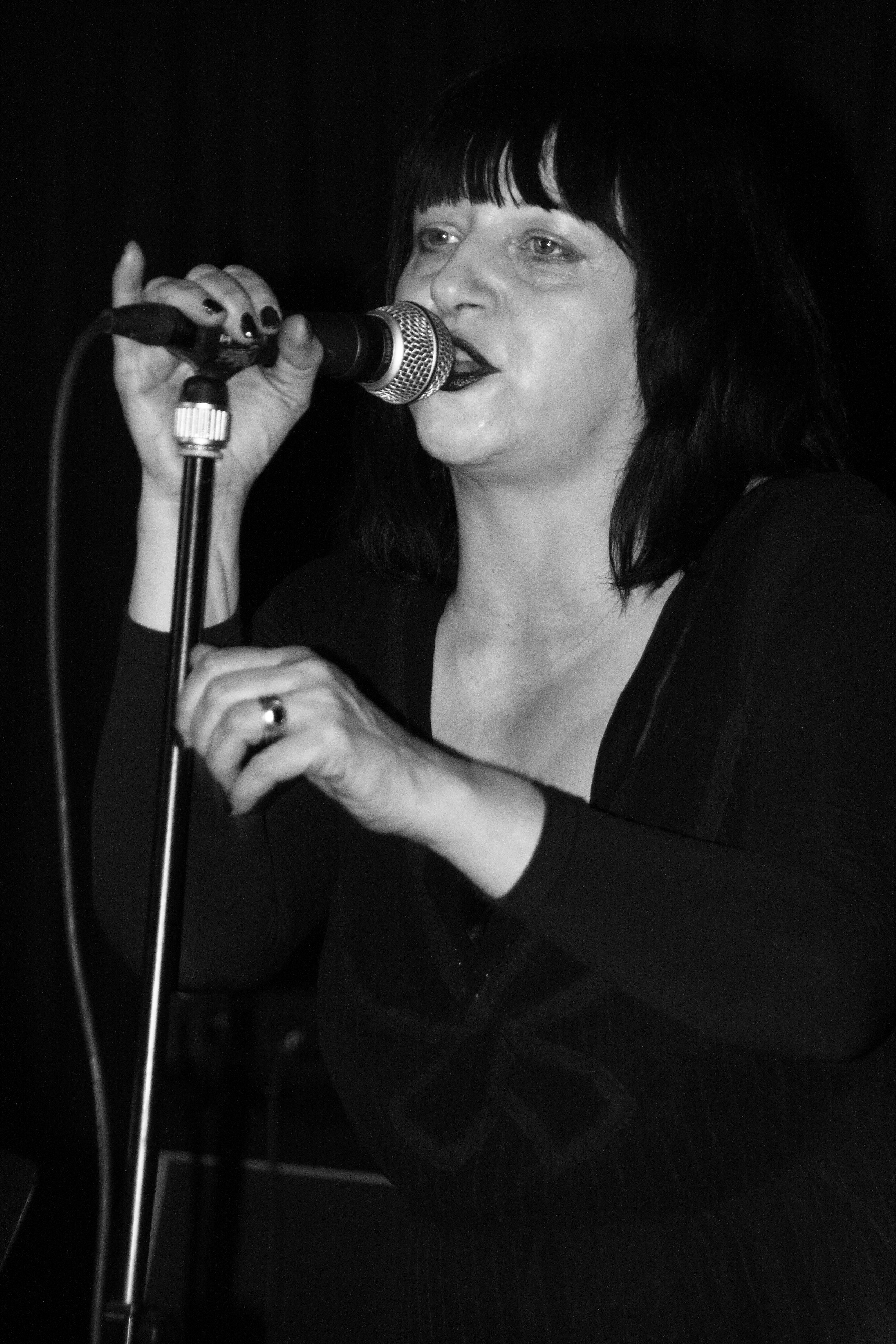 Lydia Lunch in concert with Gallon Drunk at Club w71, Weikersheim.